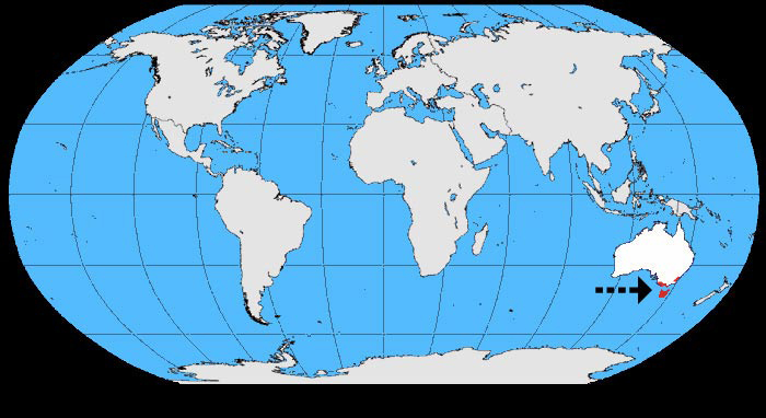 Range map of Corvus tasmanicus.